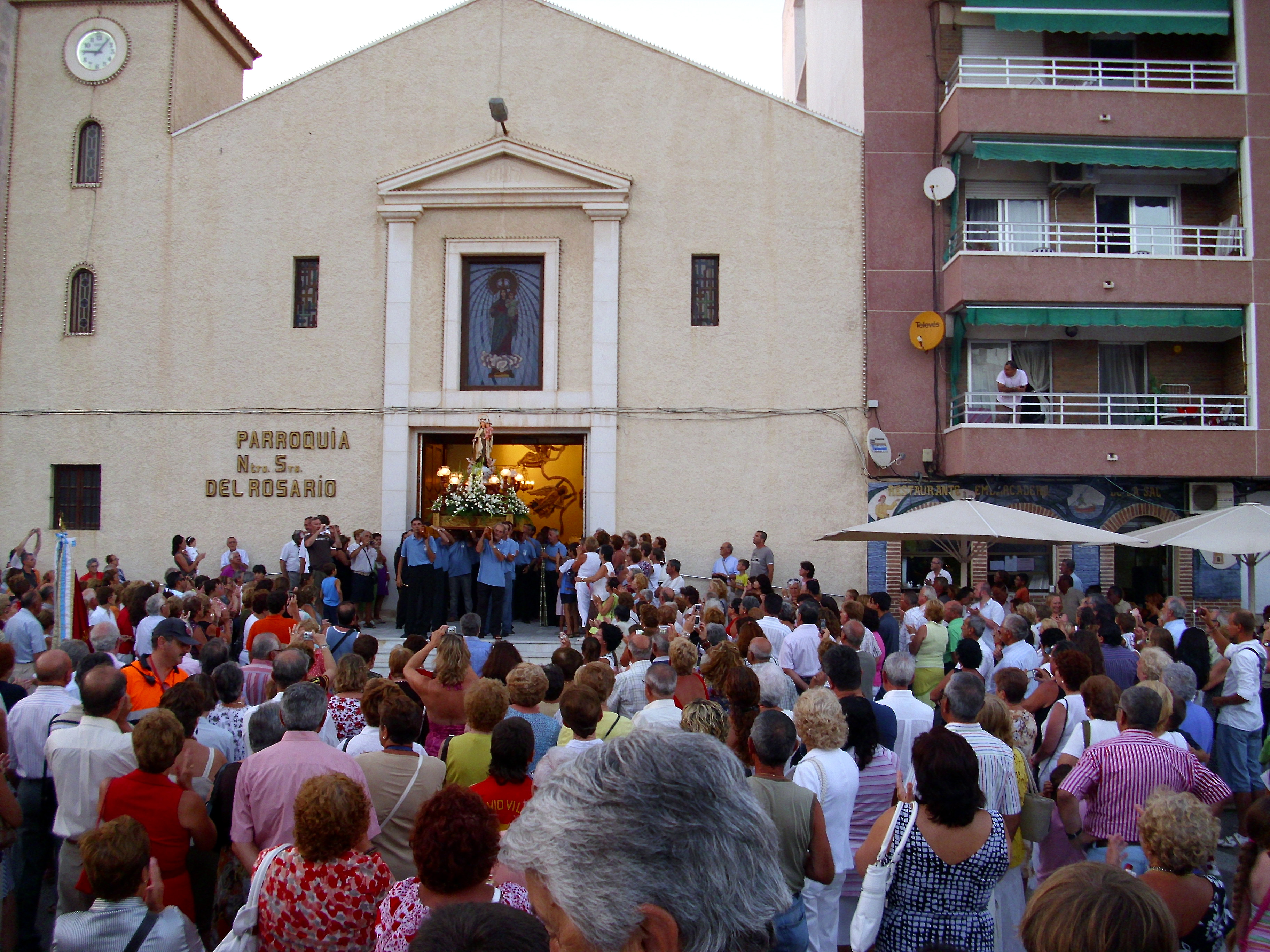 Procession Torrelamata, Torrevieja, Alicante, Spain.